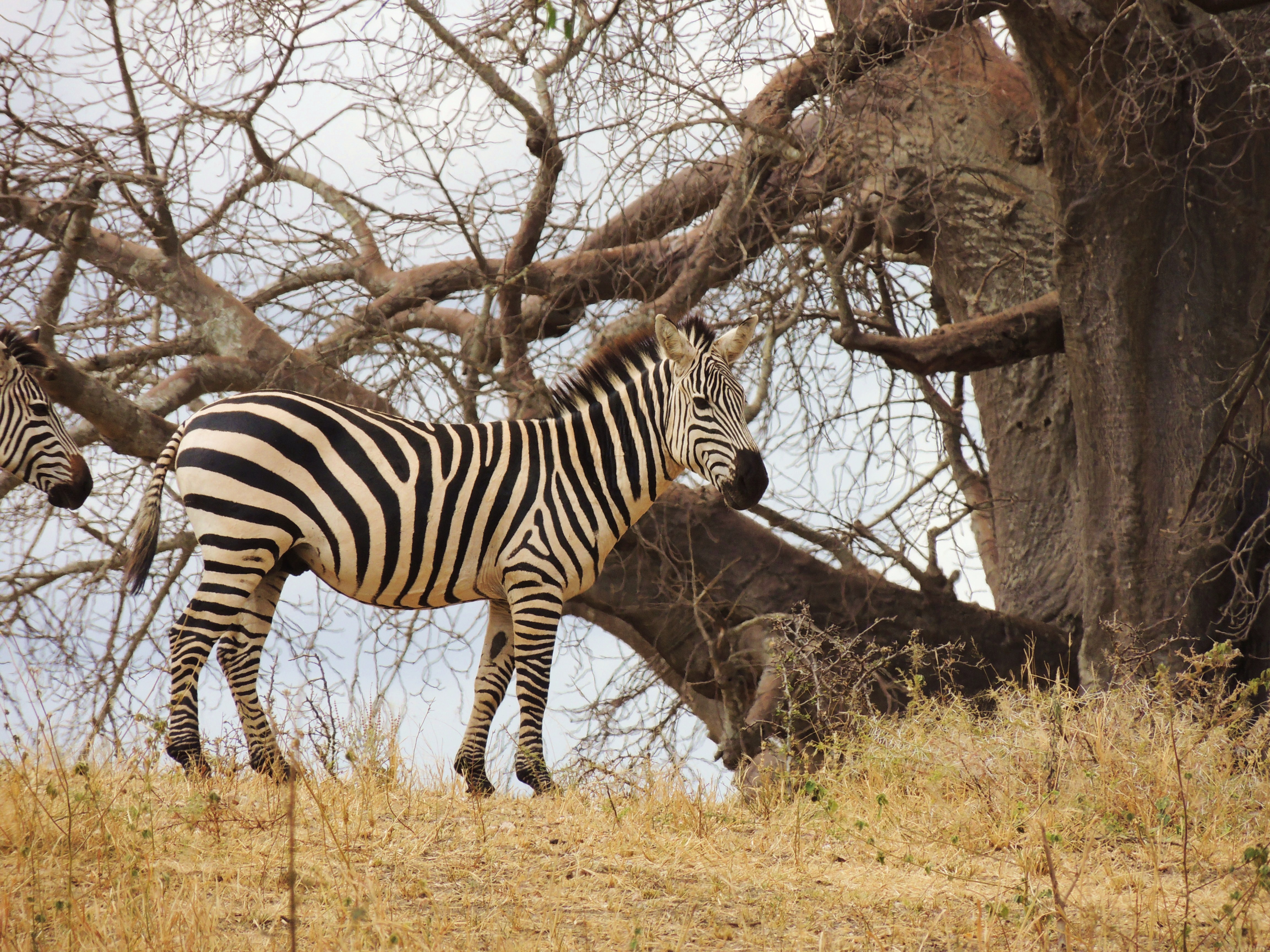 Zebra - Equus quagga